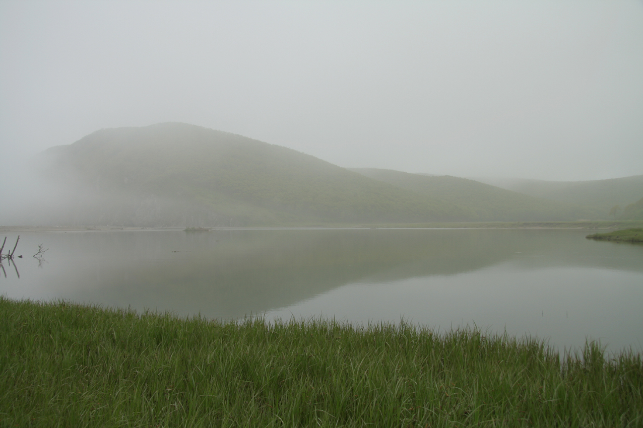 Milogradovka River